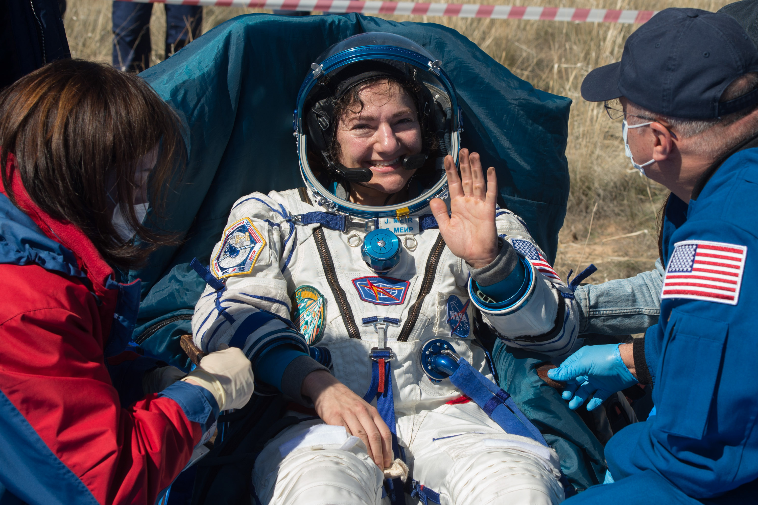 Expedition 62 astronaut Jessica Meir is seen outside the Soyuz MS-15 spacecraft after she landed with NASA astronaut Andrew Morgan and Roscosmos cosmonaut Oleg Skripochka in a remote area near the town of Zhezkazgan, Kazakhstan on Friday, April 17, 2020. Meir and Skripochka returned after 205 days in space, and Morgan after 272 days in space. All three served as Expedition 60-61-62 crew members onboard the International Space Station.